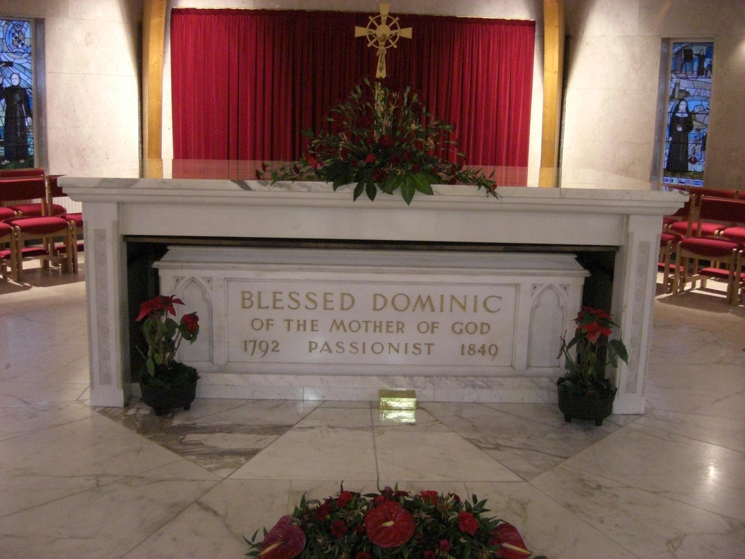 The tomb of Bl. Dominic Barbieri, born in Viterbo (1792), died in Reading (England, 1849)